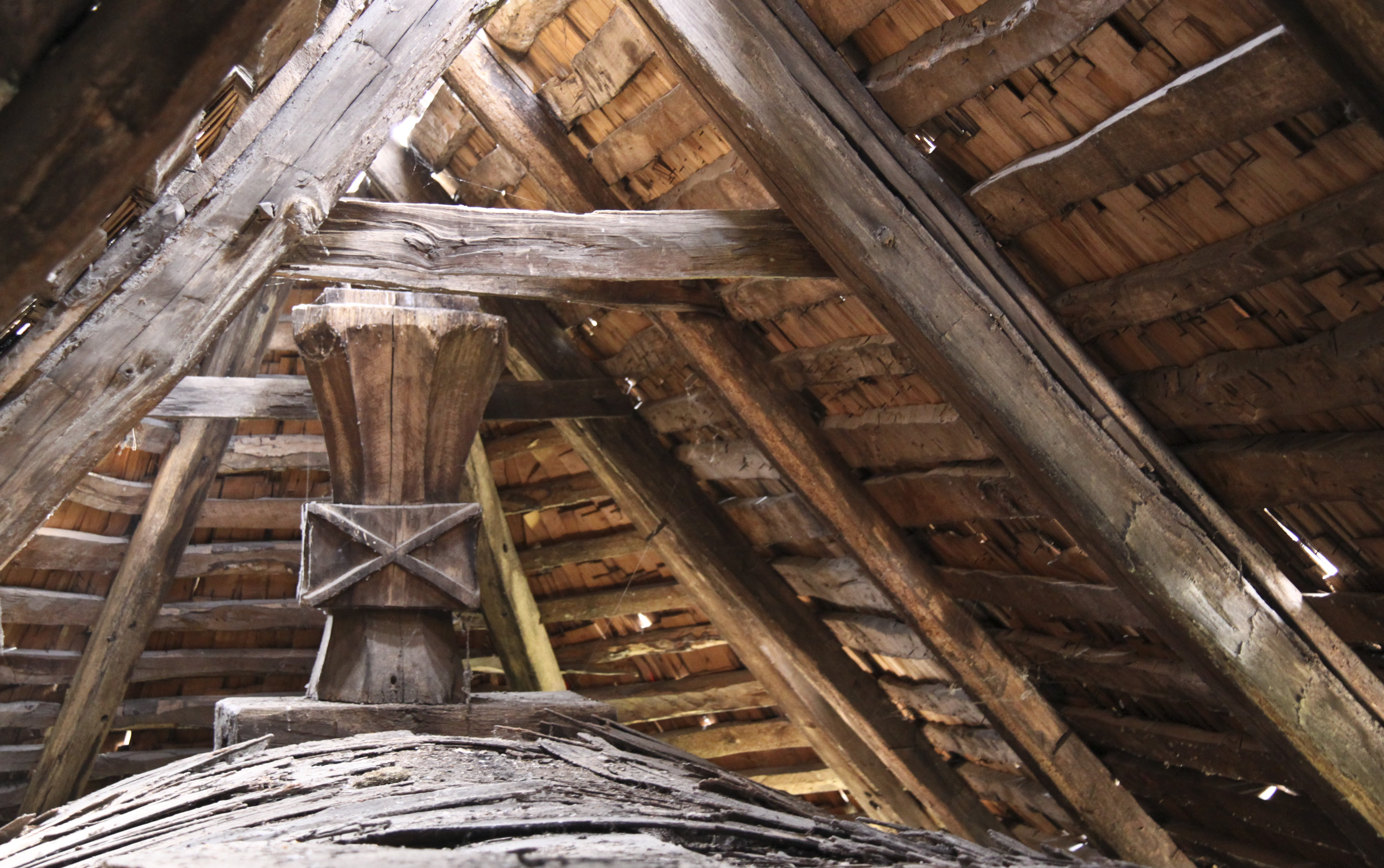 Nemoiu, Vâlcea county, Romania: the wooden church.